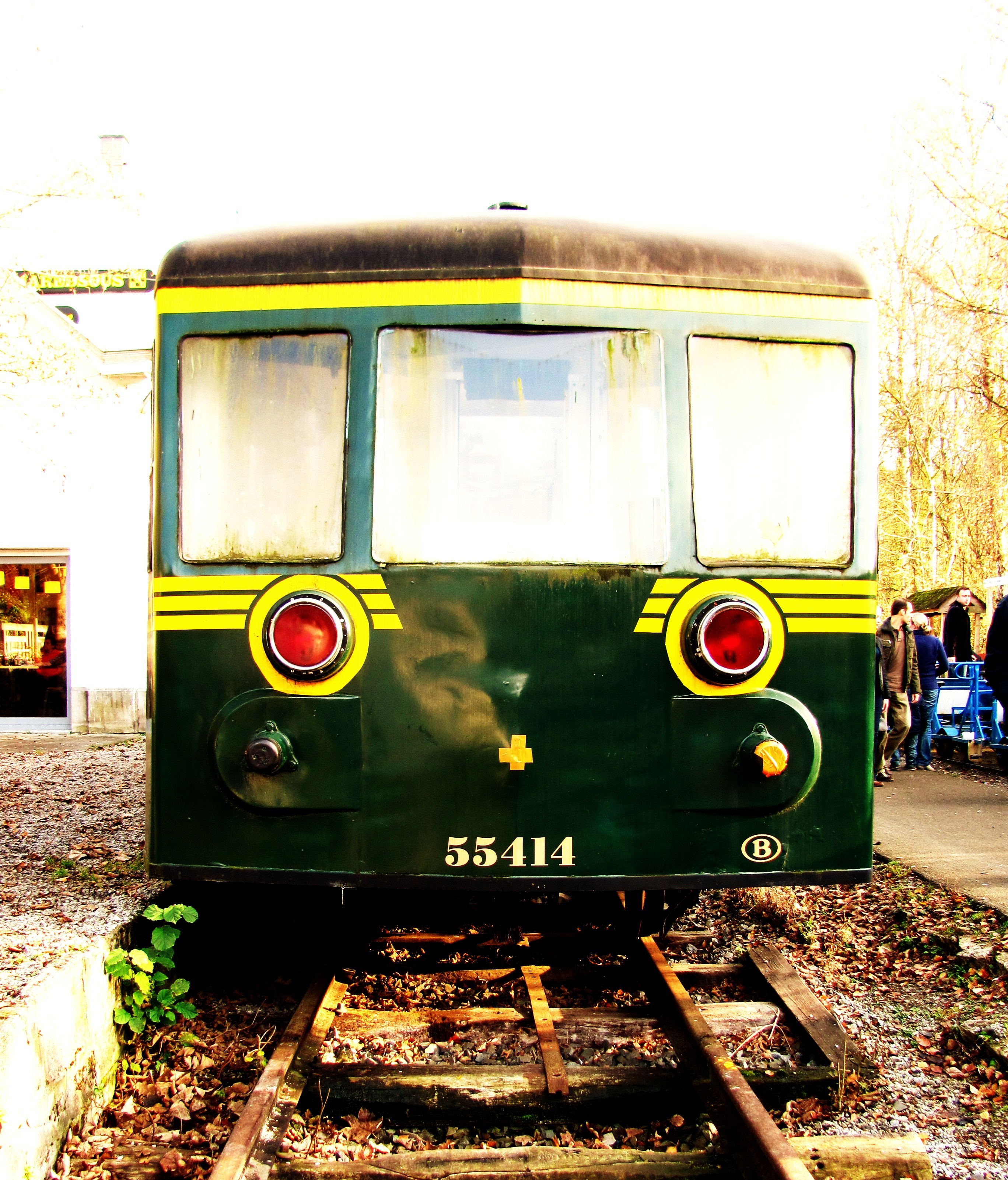 55414 front